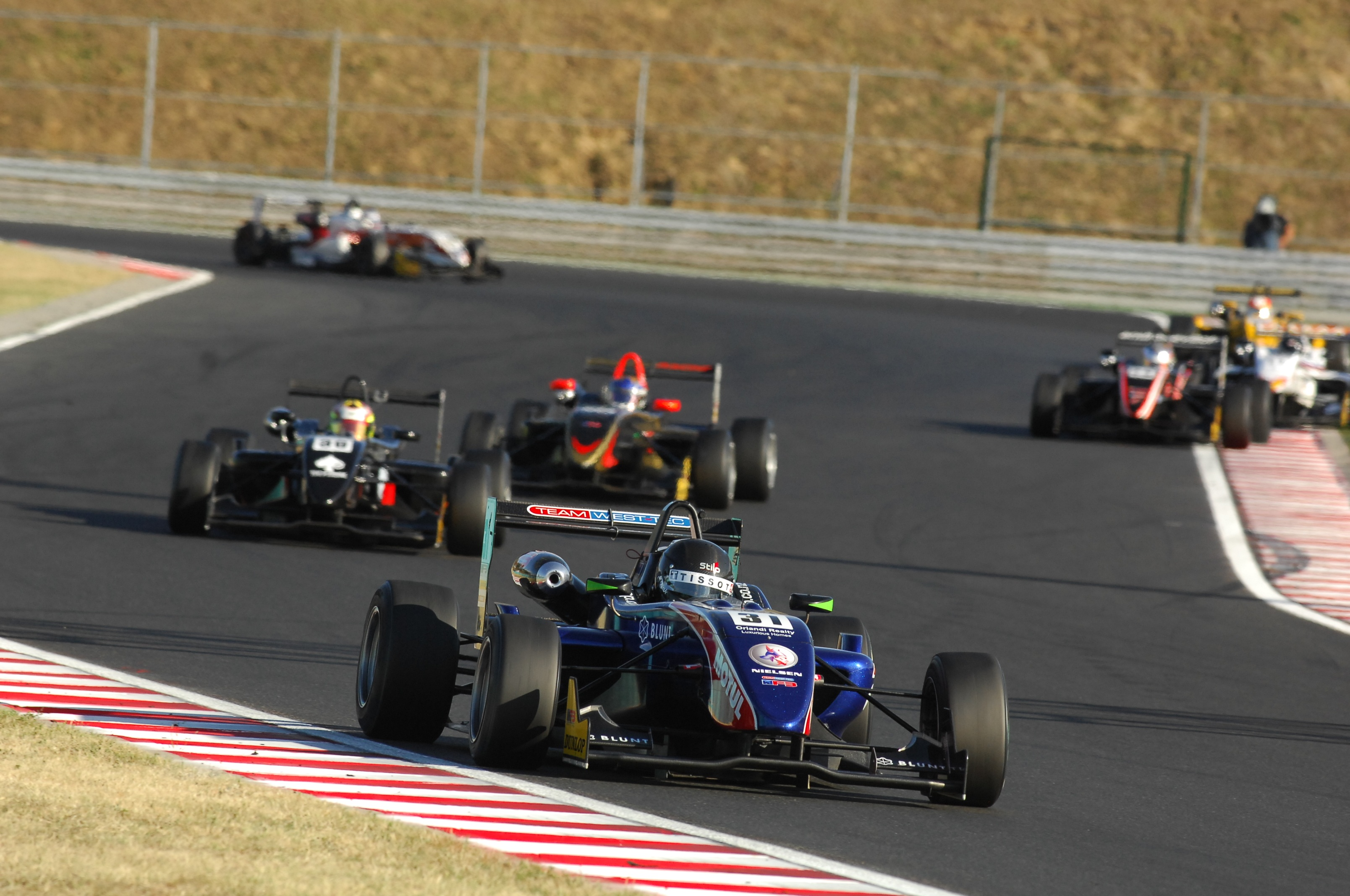 Chris Vlok Hungaroring 2012 F3 Open